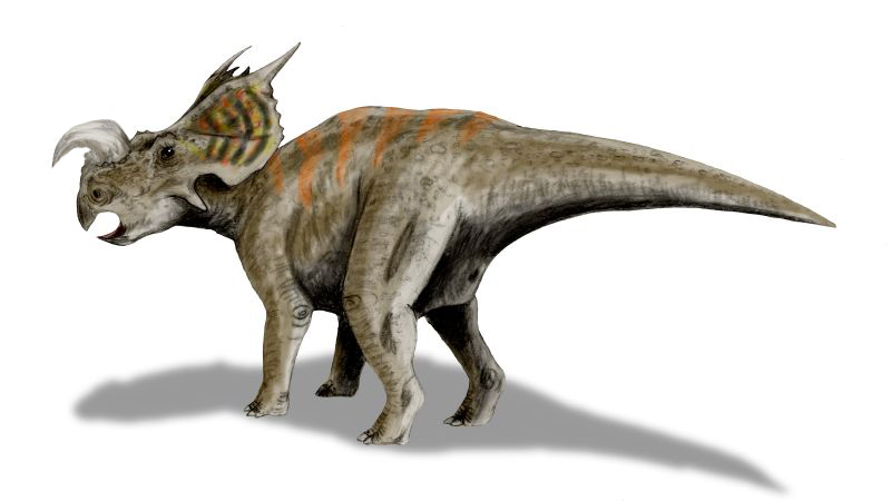 Einiosaurus procurvicornis, a ceratopsian from the Late Cretaceous of Montana, pencil drawing, digital coloring